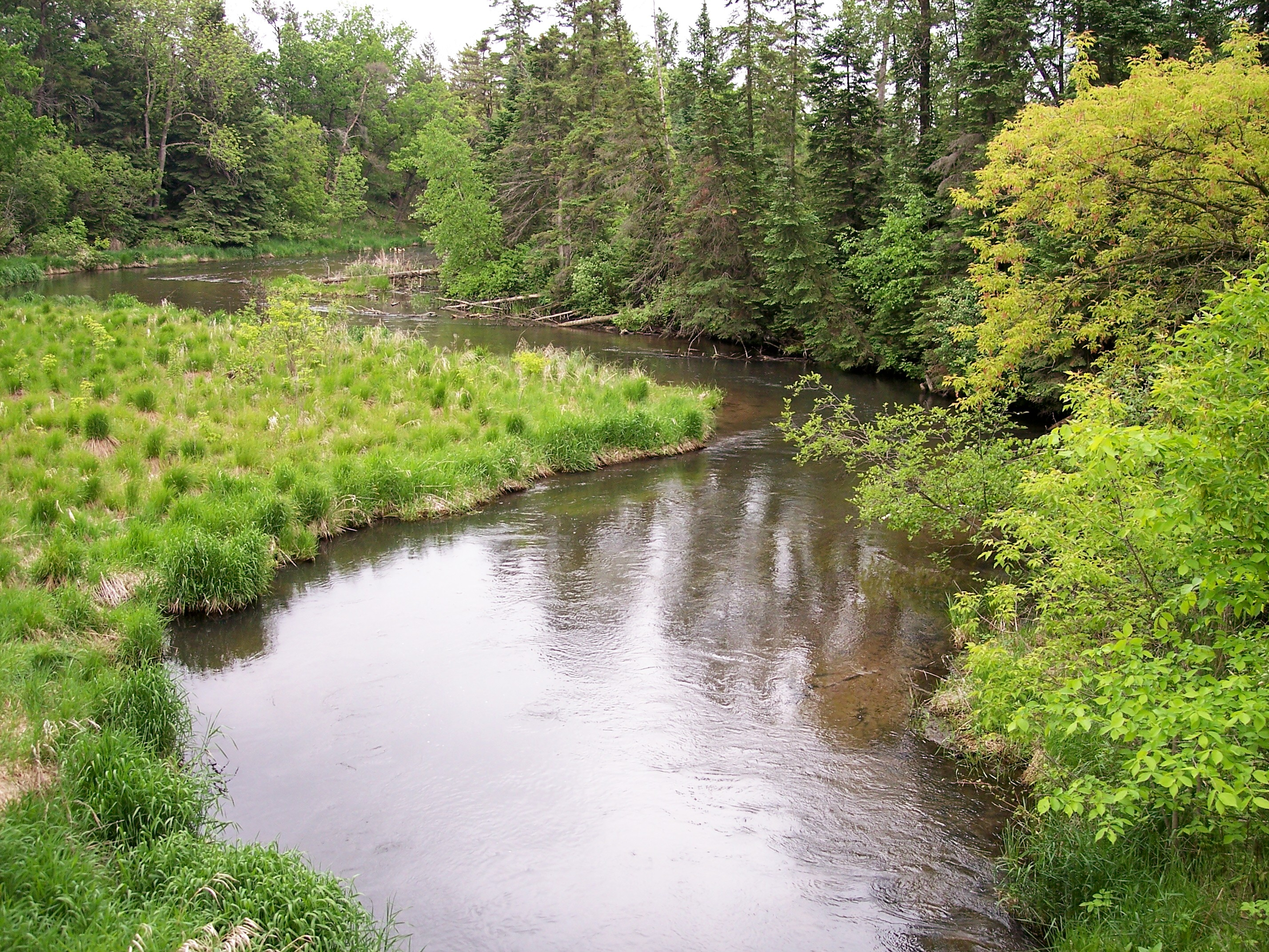 The Straight River as viewed from Township Road 2 in Straight River Township, Minnesota.